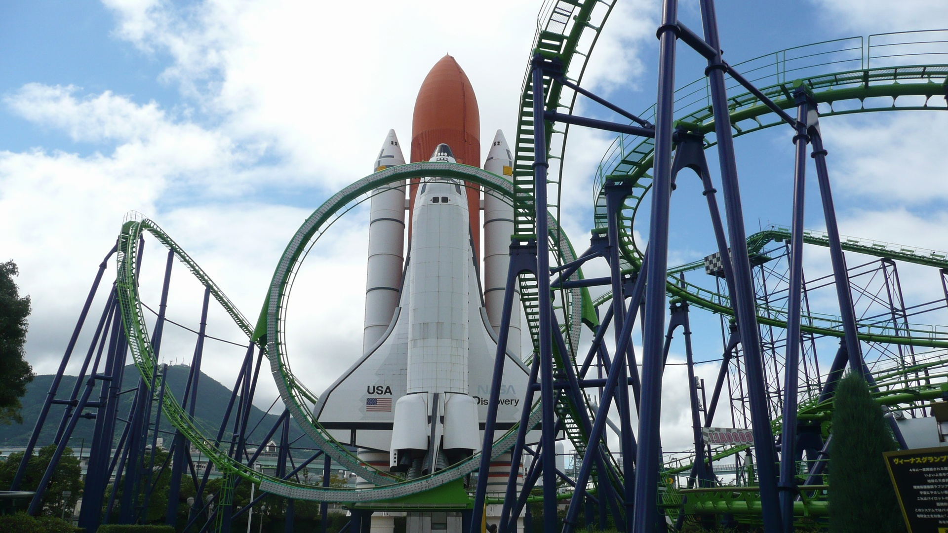 Space World - Venus GP (Kitakyūshū, Fukuoka, Japan)